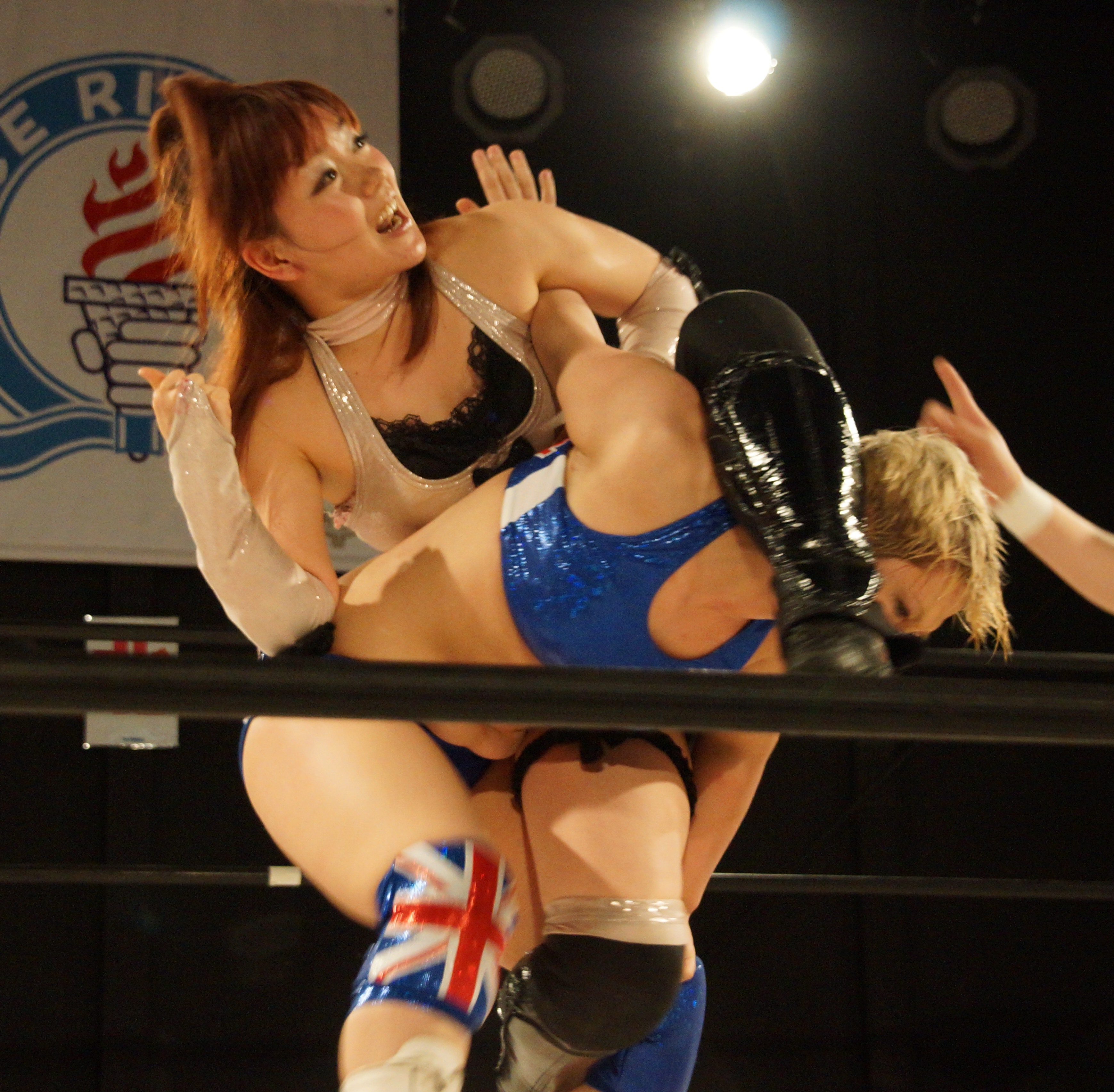 Professional wrestler Miyako Matsumoto holding April Davids in the octopus stretch at an Ice Ribbon event.